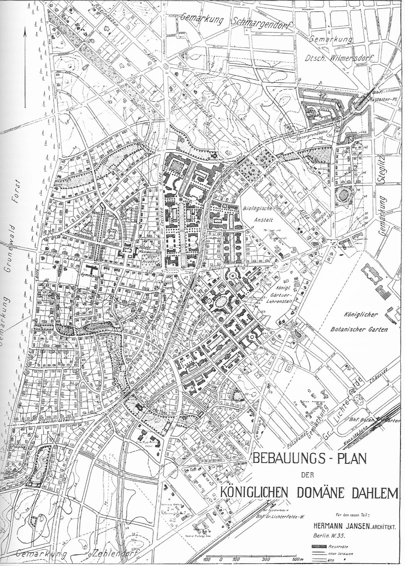 Land development plan of Berlin-Dahlem. Published 1911 with additions for a "modern city of science" by Hermann Jansen which have never been implemented this way.